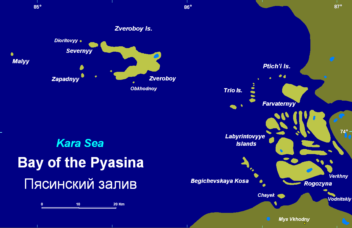 color map